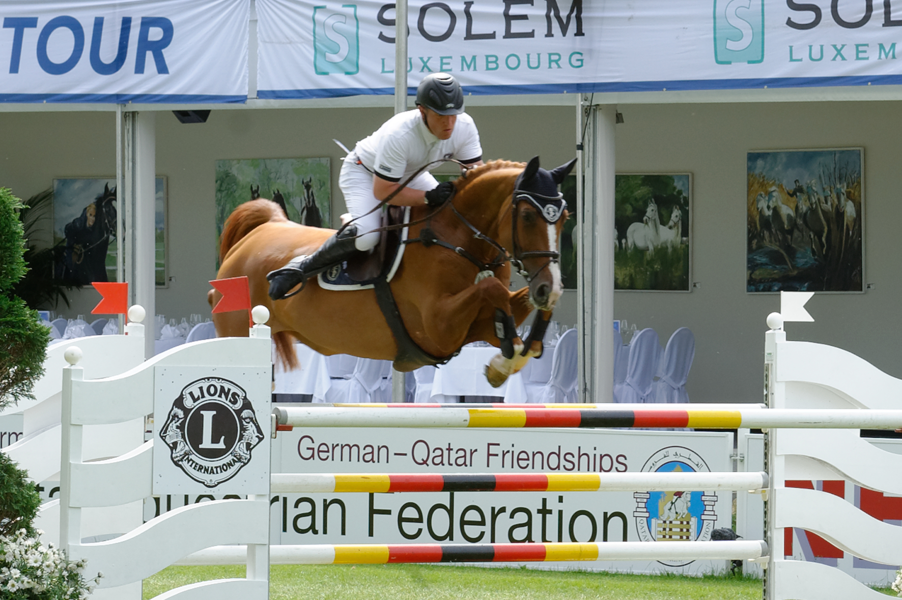 Internationales Pfingstturnier Wiesbaden 2014 The making of this document was supported by the Community-Budget of Wikimedia Germany.